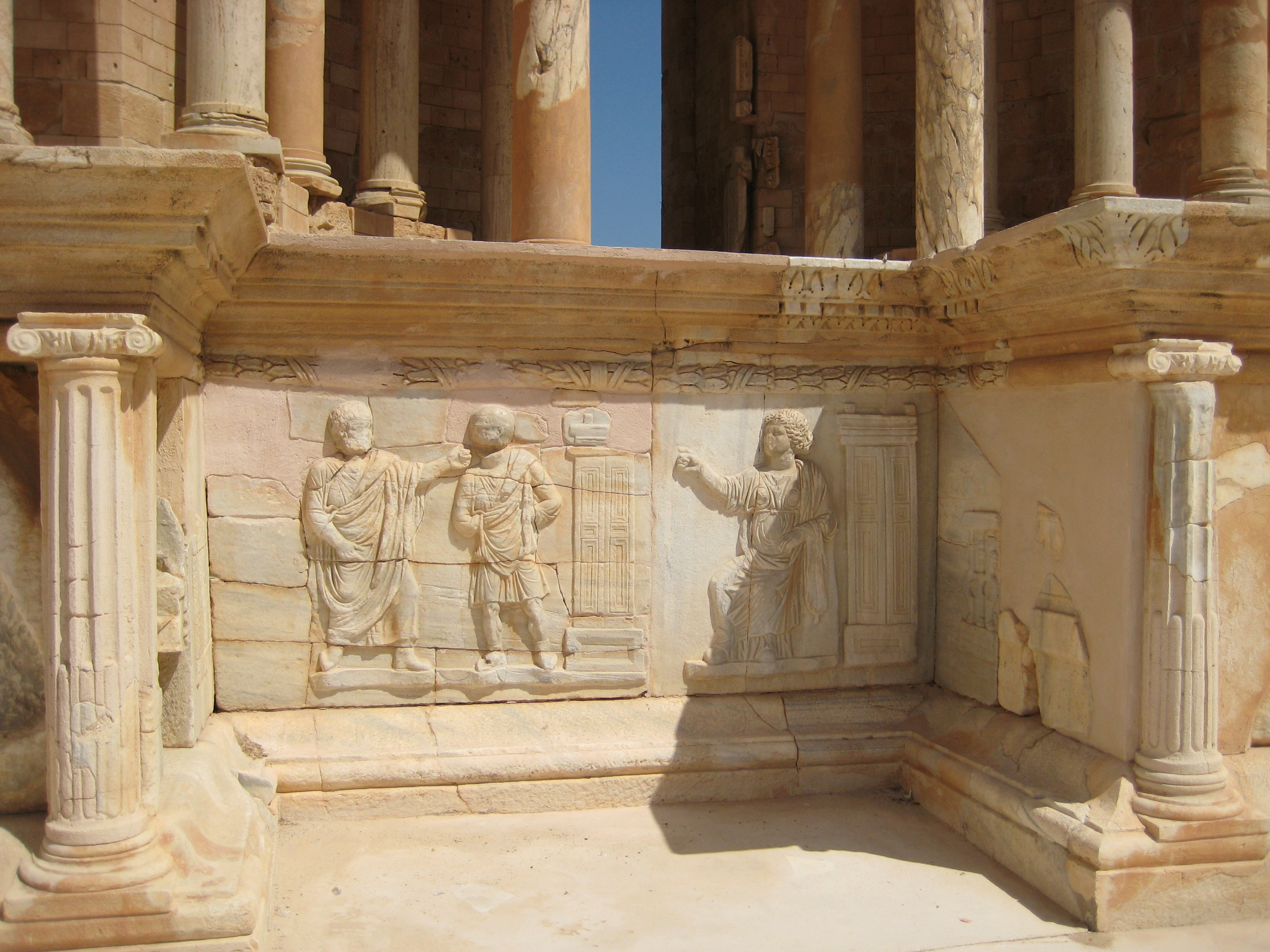 Bas-Relief (on bottom of stage), theater in Sabratha city 2nd century A.D. Libya